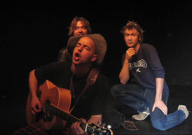 The Martians at Bedlam theatre Edinbugh